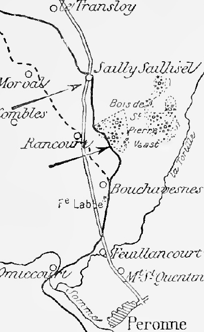 Diagram showing the attacks of the Sixth Army in October 1916